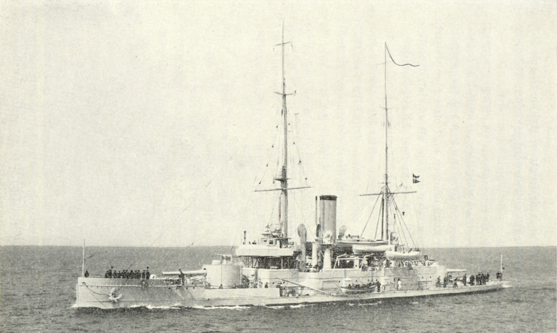 Danish coastal defence ship Olfert Fischer, launched in 1903